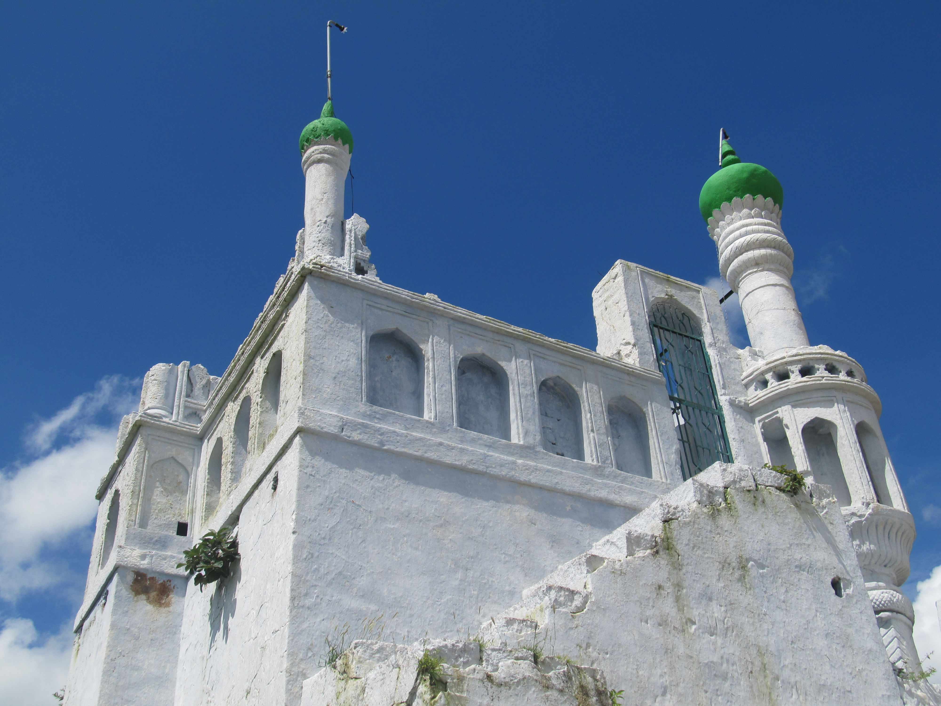 On top of the Hill Fort in Medak